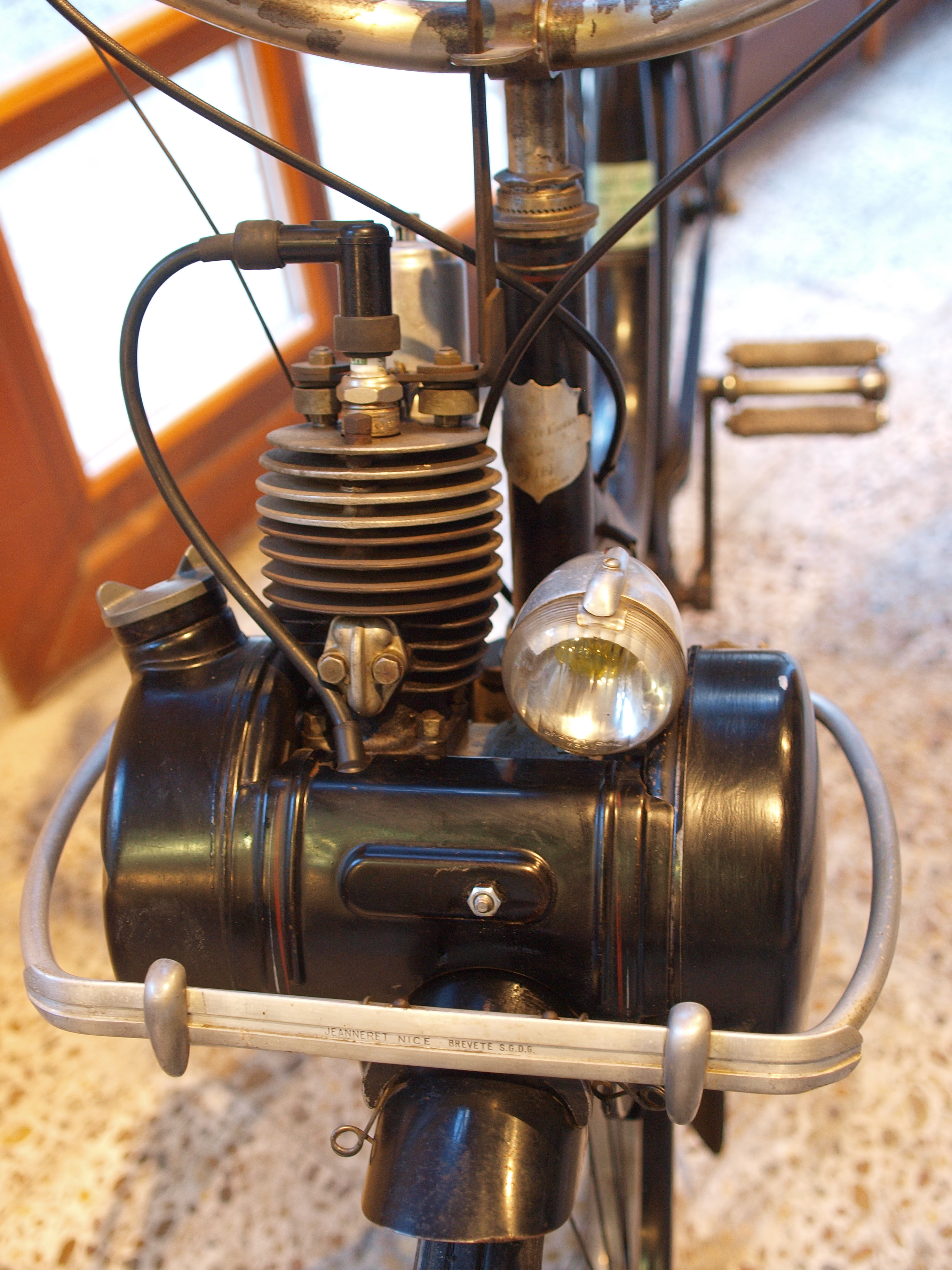 Velosolex 45cc engine (year 1953) at exhibition in Zamora (Spain) in the III Show of the Asociación Motociclista Zamorana (Zamora's Motorbike Association), February 2013